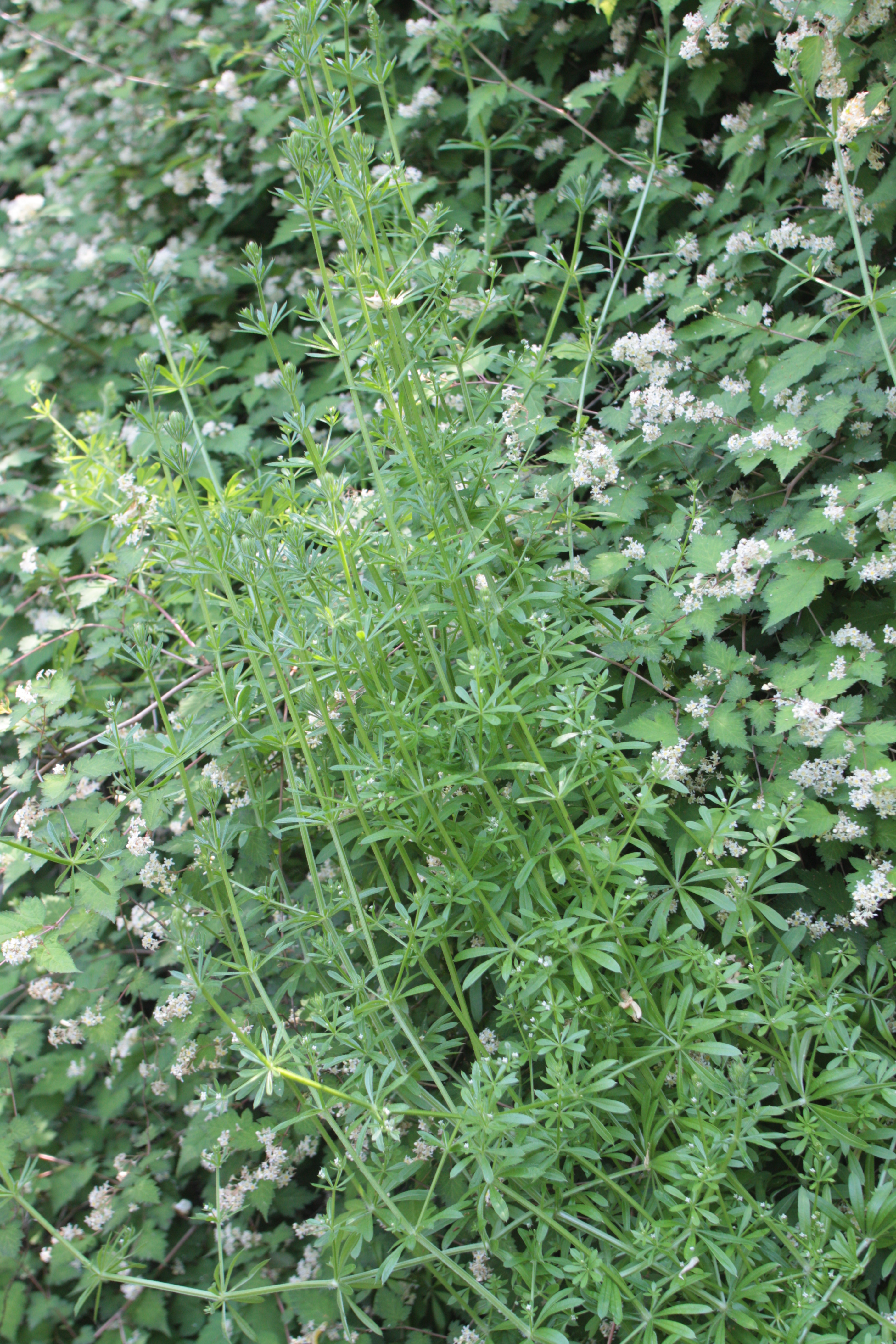 Galium spurium var. echinospermon in Bupyung, Korea